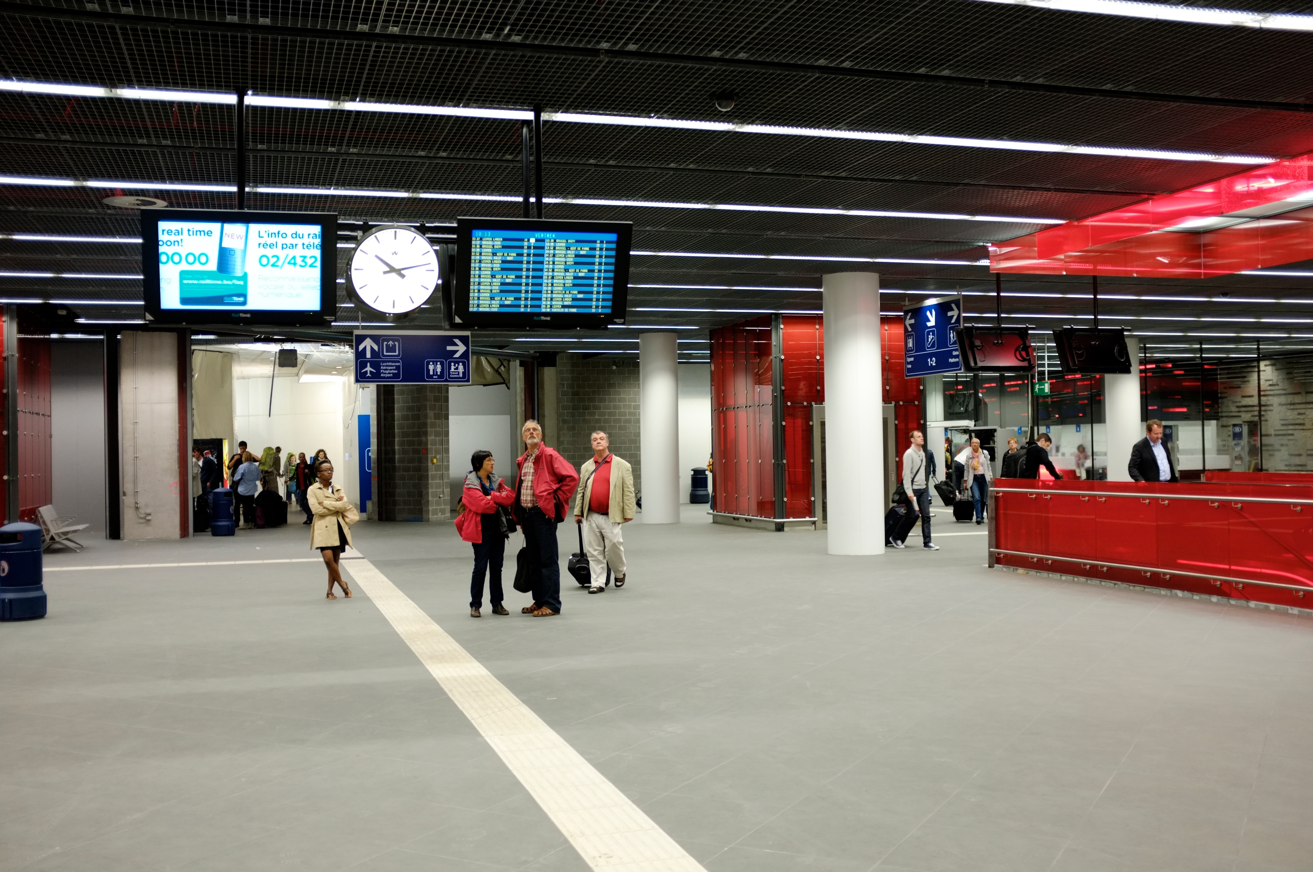 Brussels National Airport railway station